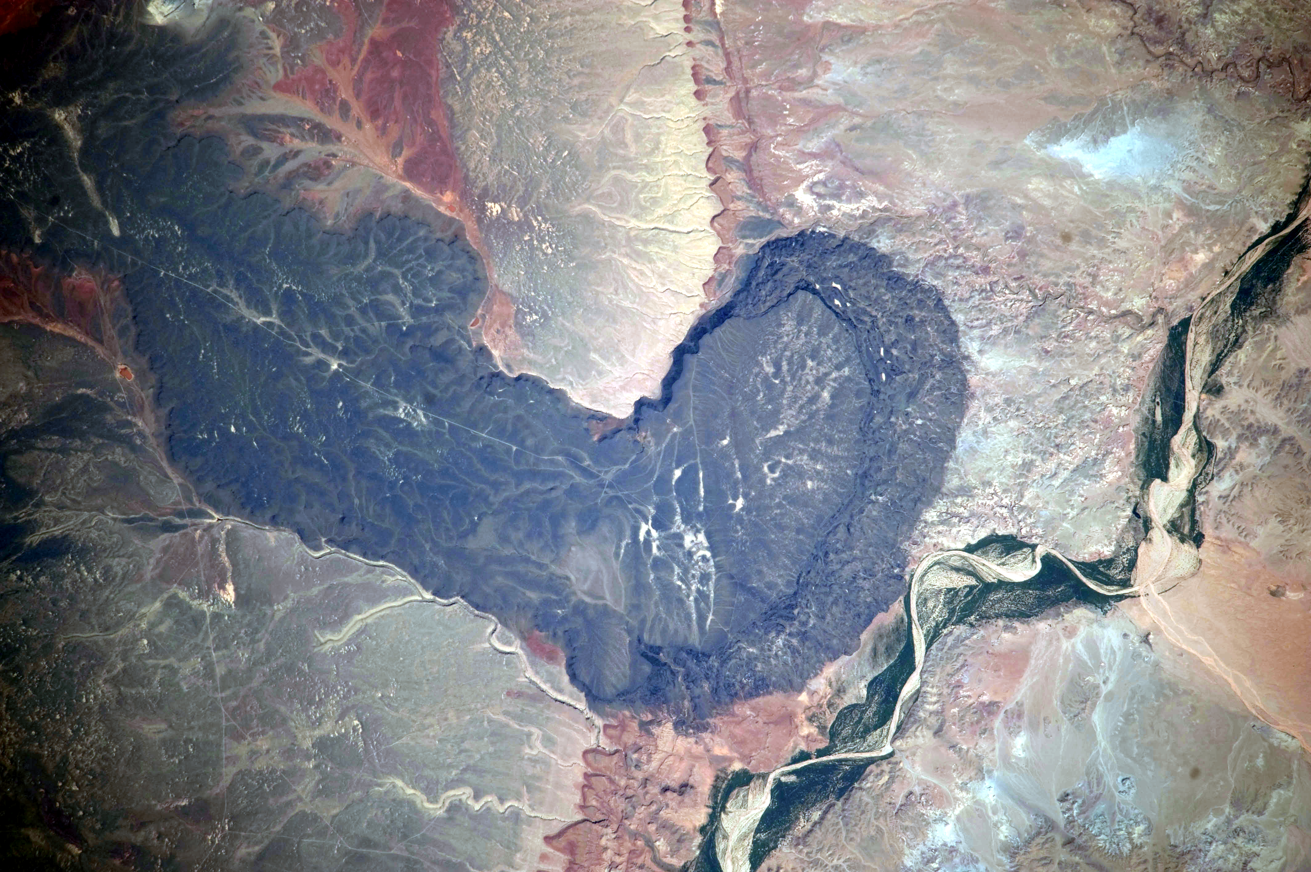 The otherworldly footprint of black basaltic lava creates a striking landscape at Black Point Lava Flow in northern Arizona, seen in this photograph taken from the International Space Station. The eastern edge of the flow slumps down to the surrounding plain, and it ends along the Little Colorado River (lower right).